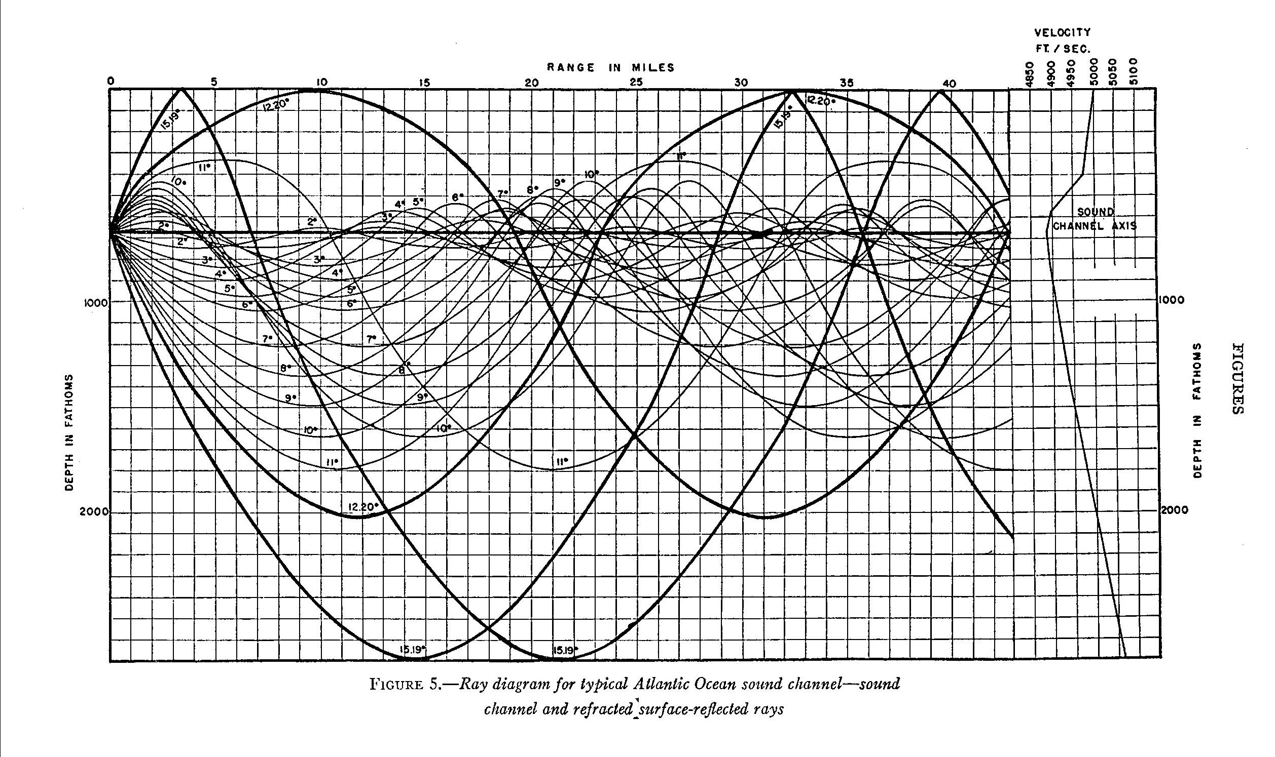 Propagation of sound through the ocean thanks to the SOFAR channel as a wave guide.